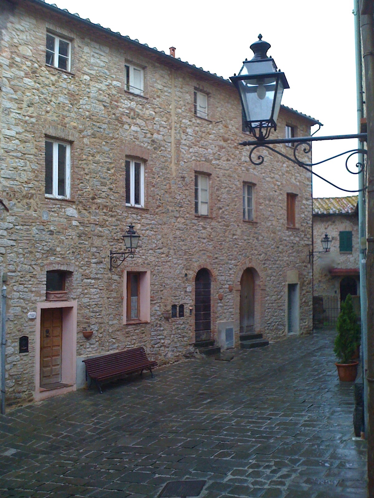 Sasso Pisano